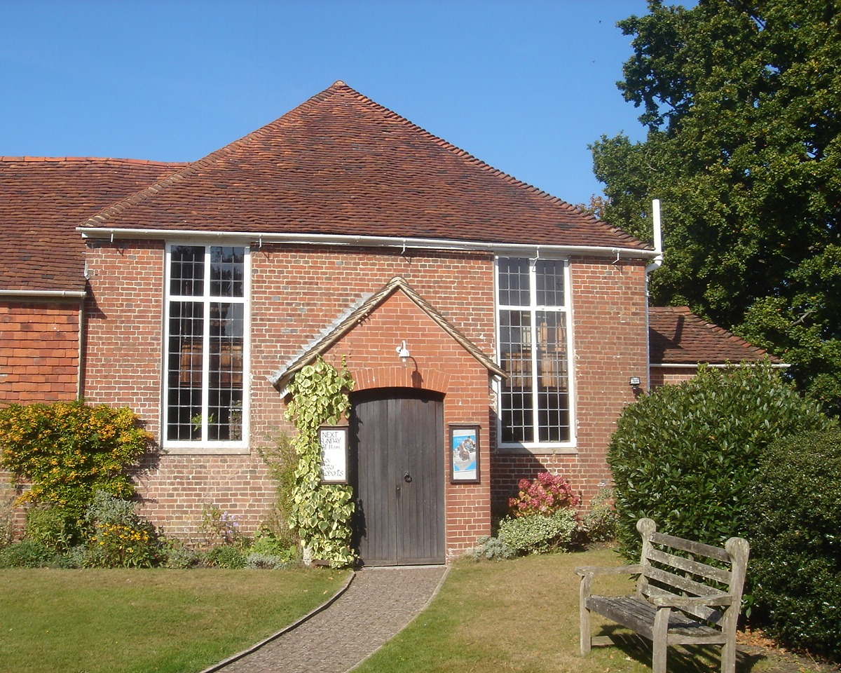 The Old Meeting House, The Twitten, Ditchling, District of Lewes, East Sussex. Built in the 1730s as an extension to an adjacent house of 1672. They have been listed as a group at Grade II by English Heritage (IoE Code 292815)